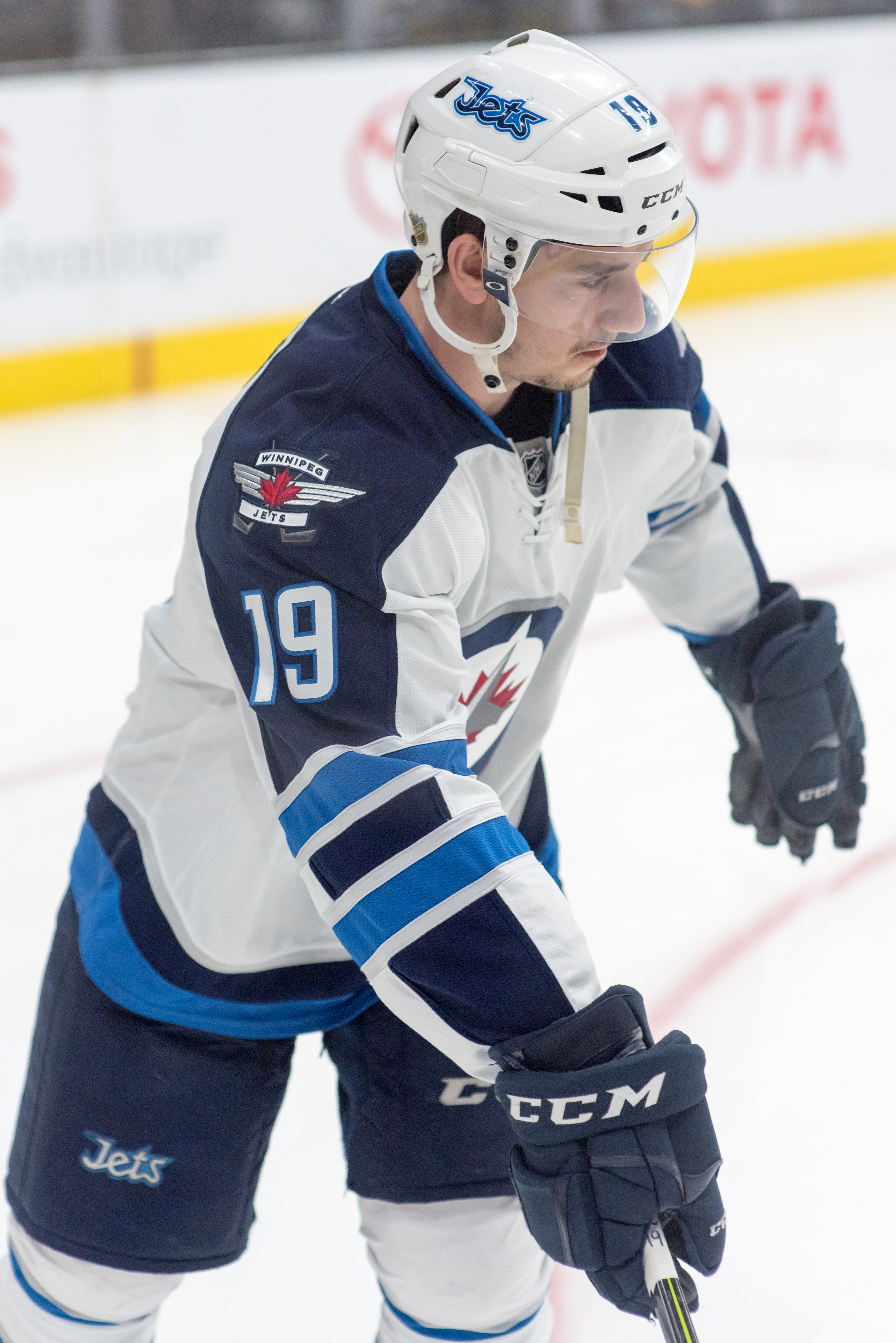 Nic Petan in 2016